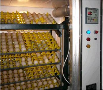 Egg incubator